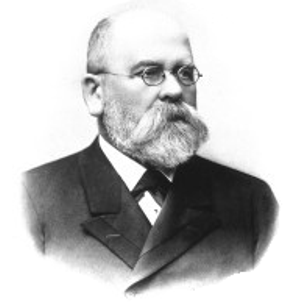 Rudolf Chrobak (1843-1910), Austrian gynaecologist and obstetrician